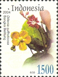 Stamps of Indonesia